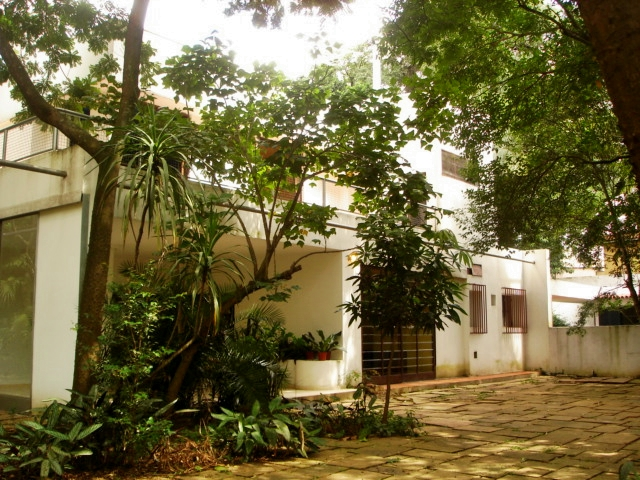 casa modernista